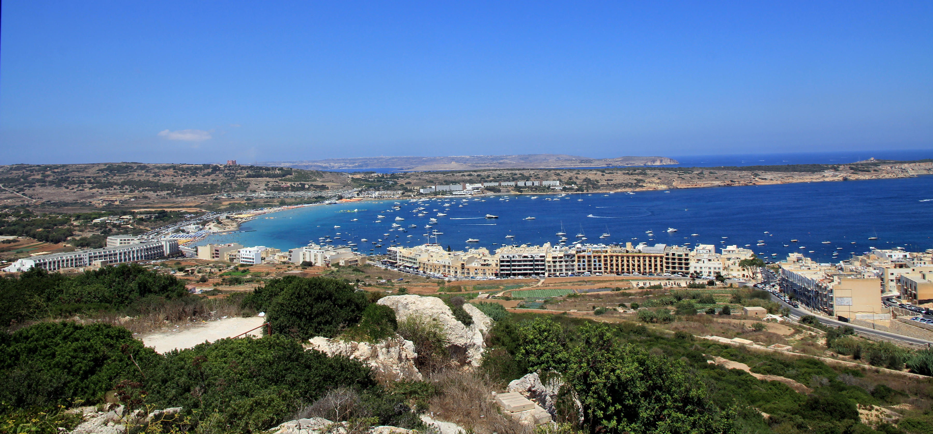 View on Mellieħa Bay from west side of town Mellieħa, Malta